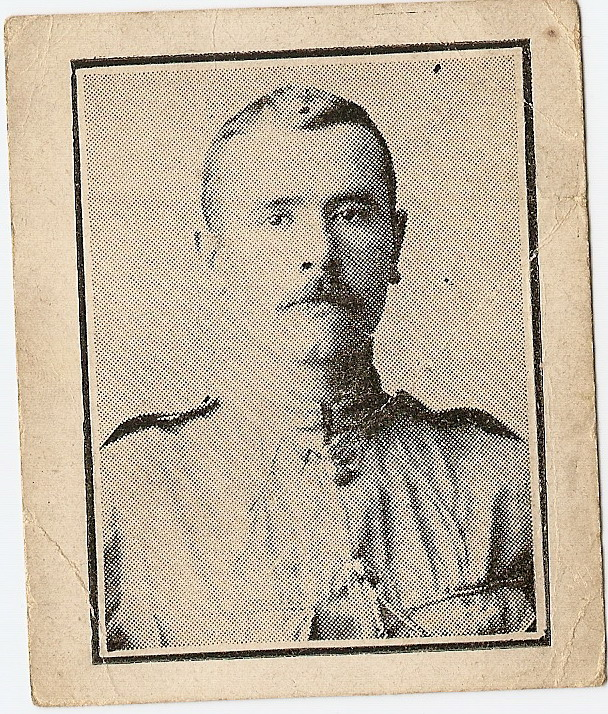 Photograph of John Dutton Benton in his army uniform